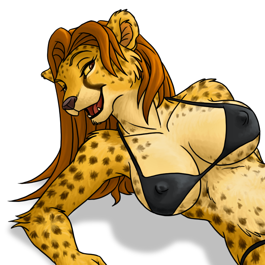 Fahada wears a black bikini.